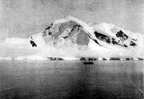 Mount William on Anvers Island (Palmer Archipelago, Antarctica)